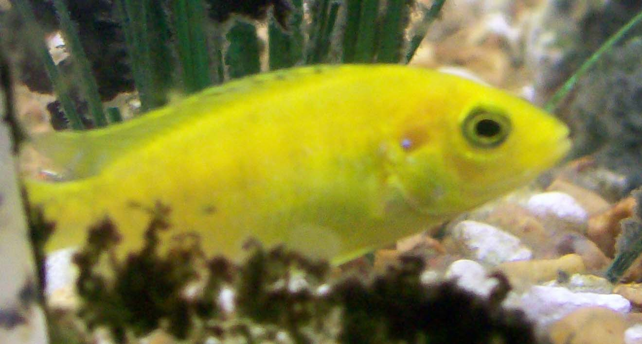 Labidochromis caeruleus female